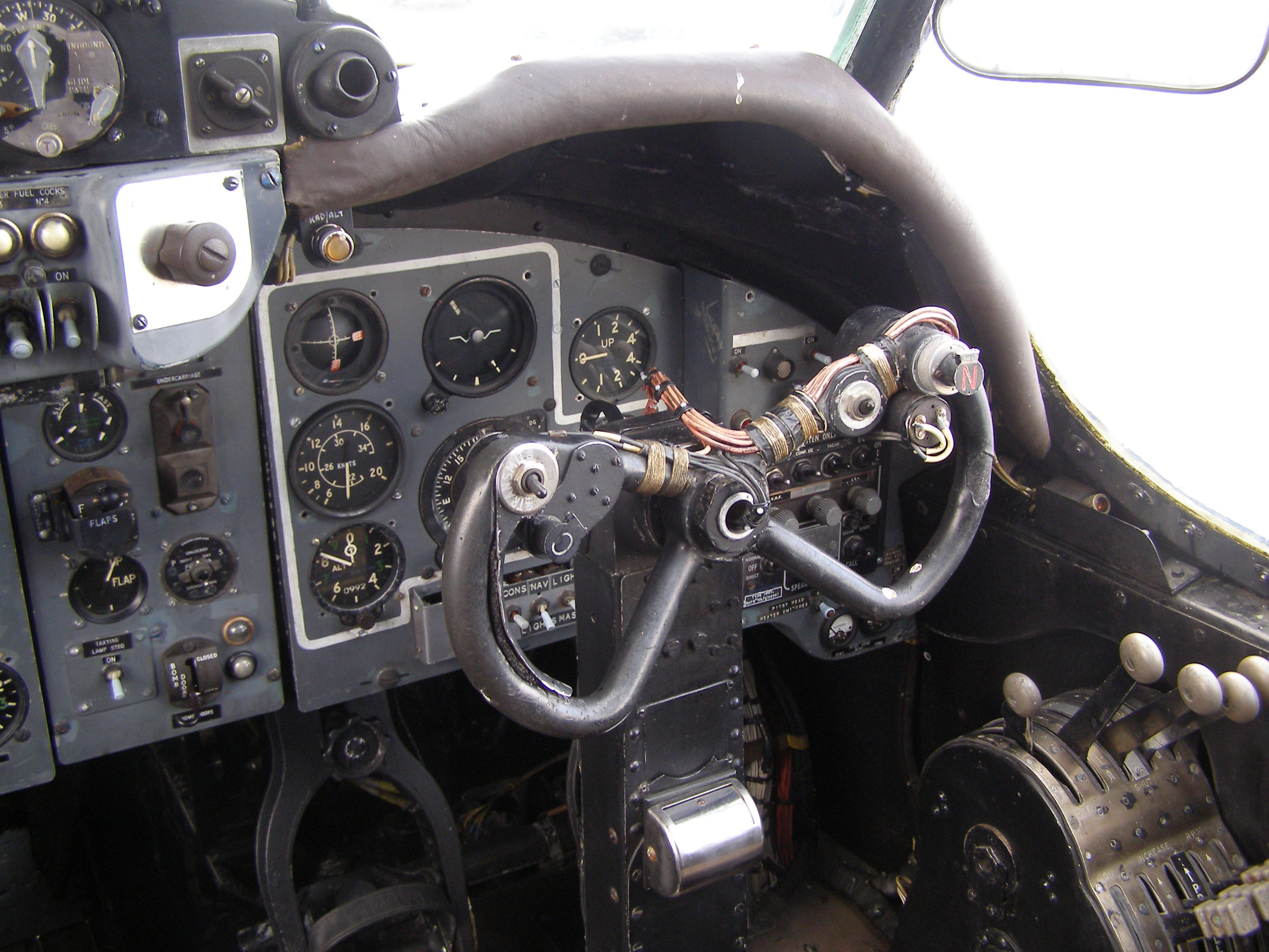 Former Royal Air Force Avro Shackleton MR3 WR982 coded "J" on display at the Gatwick Aviation Museum, England